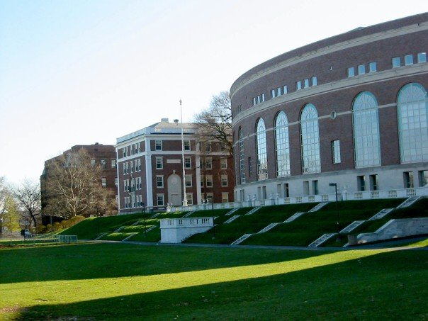 Olin Library, Wesleyan University Middletown CT. The view from Foss Hill. From left to right: Judd Hall, Harriman Hall (which houses the Public Affairs Center and CSS), and Olin Memorial Library. The rear portion of Olin Library, seen here, dates from a 1986 addition.